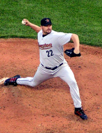 Roger Clemens pitching for the Houston Astros, 5/22/2004, by Rick Dikeman